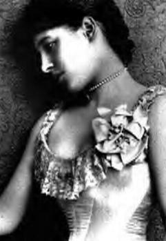 Lillie Langtry